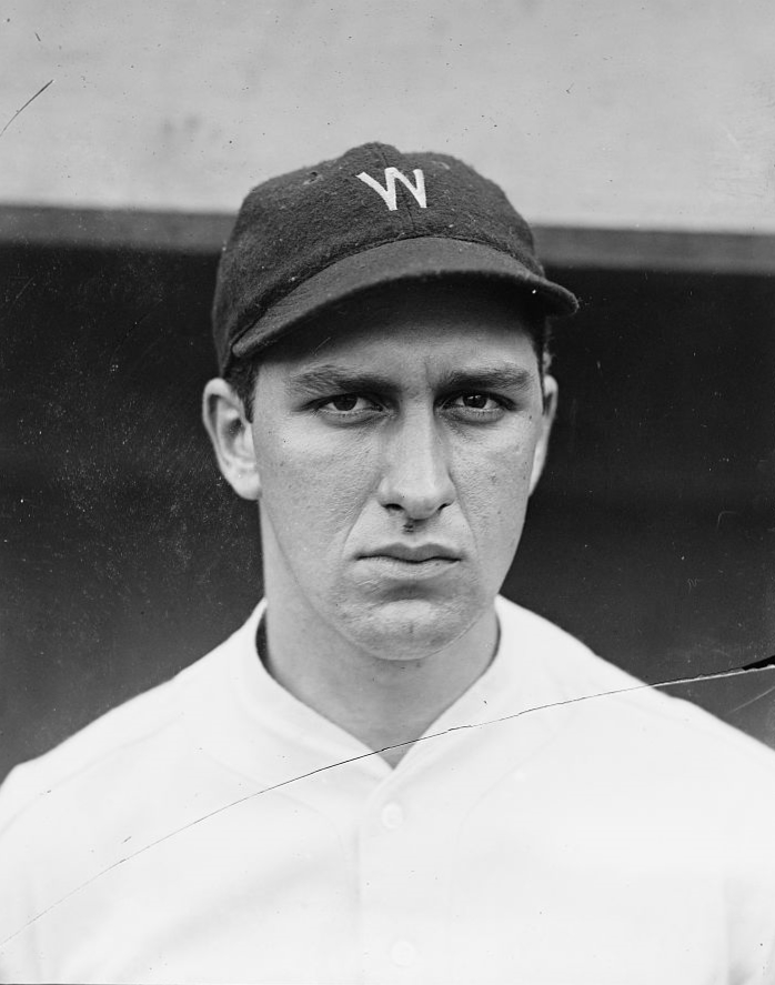 [Curly] Ogden, Wash., 1924 [Washington Senators]